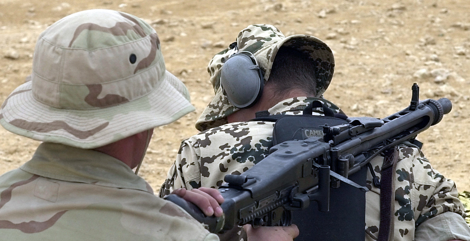 Lance Corporal (LCPL), Kennon Carney, USMC, 5TH Marines, Camp Pendleton, CA props a Germany Army 7.62mm MG3 machine gun on the back of a German Soldier during a small arms training course held at Mubarak Military City in Egypt during Exercise BRIGHT STAR 01/02. BRIGHT STAR 01/02 is a multinational exercise involving more than 74,000 troops from 44 countries that enhances regional stability and military-to-military cooperation among our key allies, and our regional partners. It prepares US Central Command to rapidly deploy and employ the forces needed to deter aggressors and, if necessary, fight and win side-by-side with our allies and regional partners.